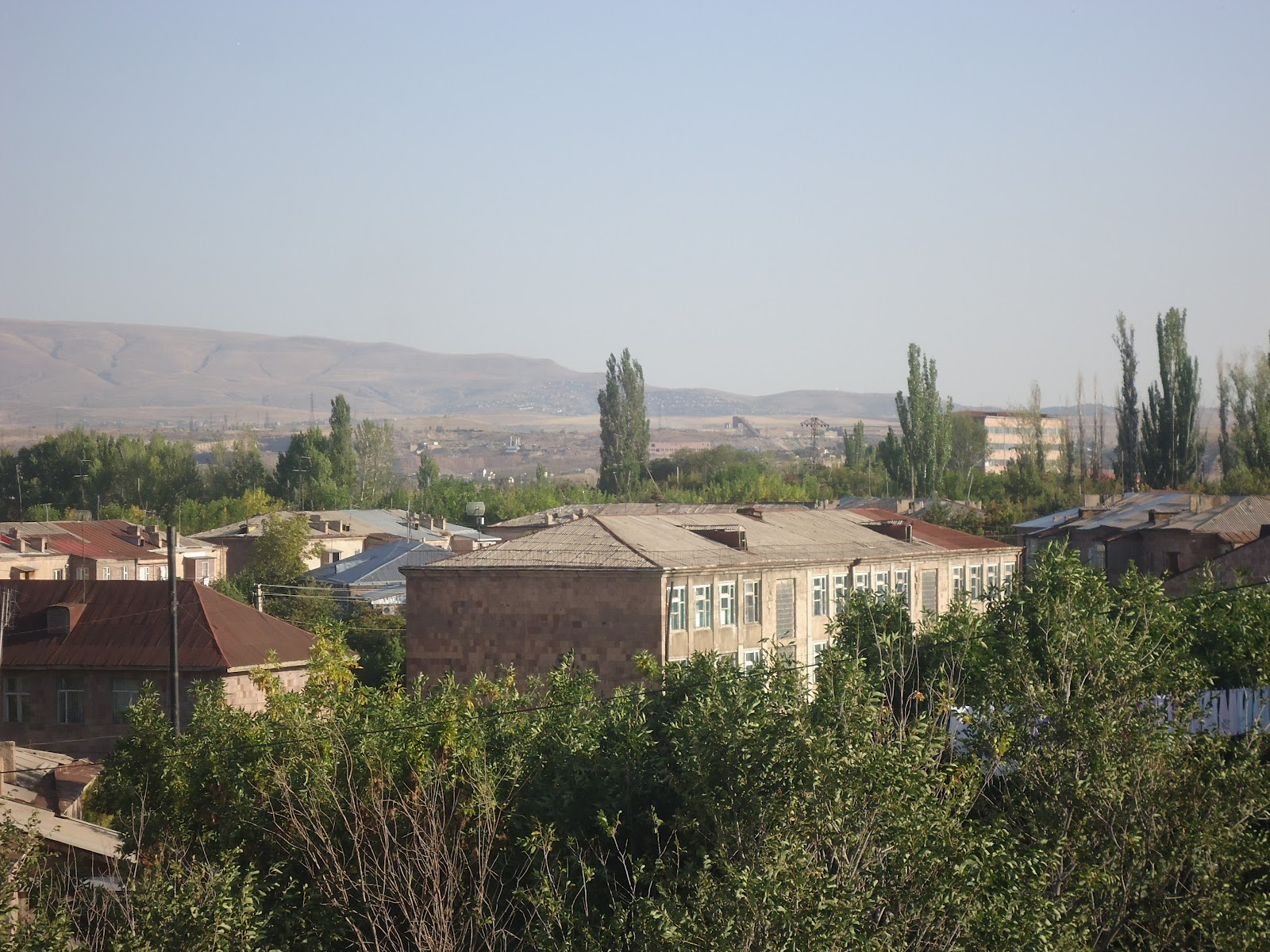 Nor Hachen, Armenia